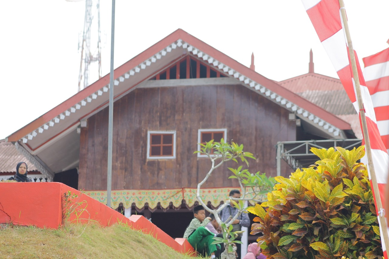 Banggai King Palace